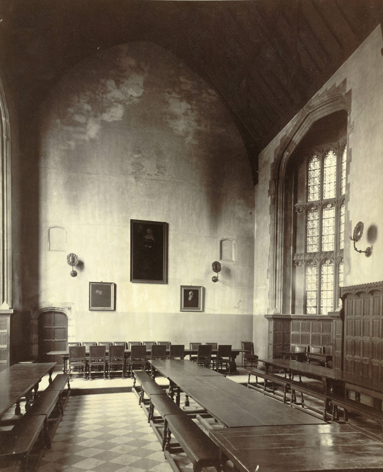 Collection: A. D. White Architectural Photographs, Cornell University Library Accession Number: 15/5/3090.01079 Title: Cambridge. Christ's College, Dining Hall (Interior) Building Date: ca. 1500-ca. 1549 Photograph date: ca. 1879-ca. 1885 Rebuilding date: 1875-1879 Location: Europe: United Kingdom; Cambridge Materials: albumen print Image: 10 3/8 x 8 3/8 in.; 26.3525 x 21.2725 cm Provenance: Gift of Andrew Dickson White Persistent URI: [1] There are no known copyright restrictions on this image. The digital file is owned by the Cornell University Library which is making it freely available with the request that, when possible, the Library be credited as its source. We had some help with the geocoding from Web Services by Yahoo!